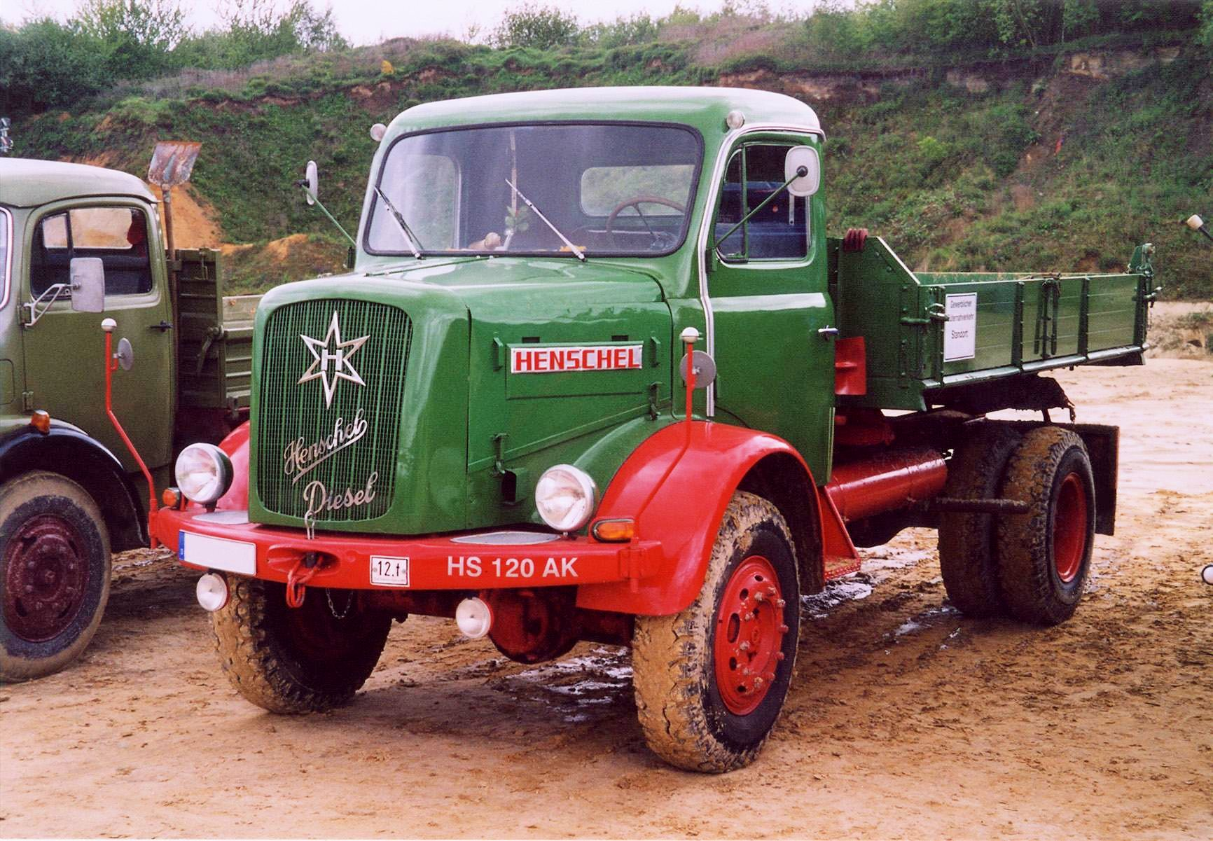 Henschel HS120AK Kipper Truck